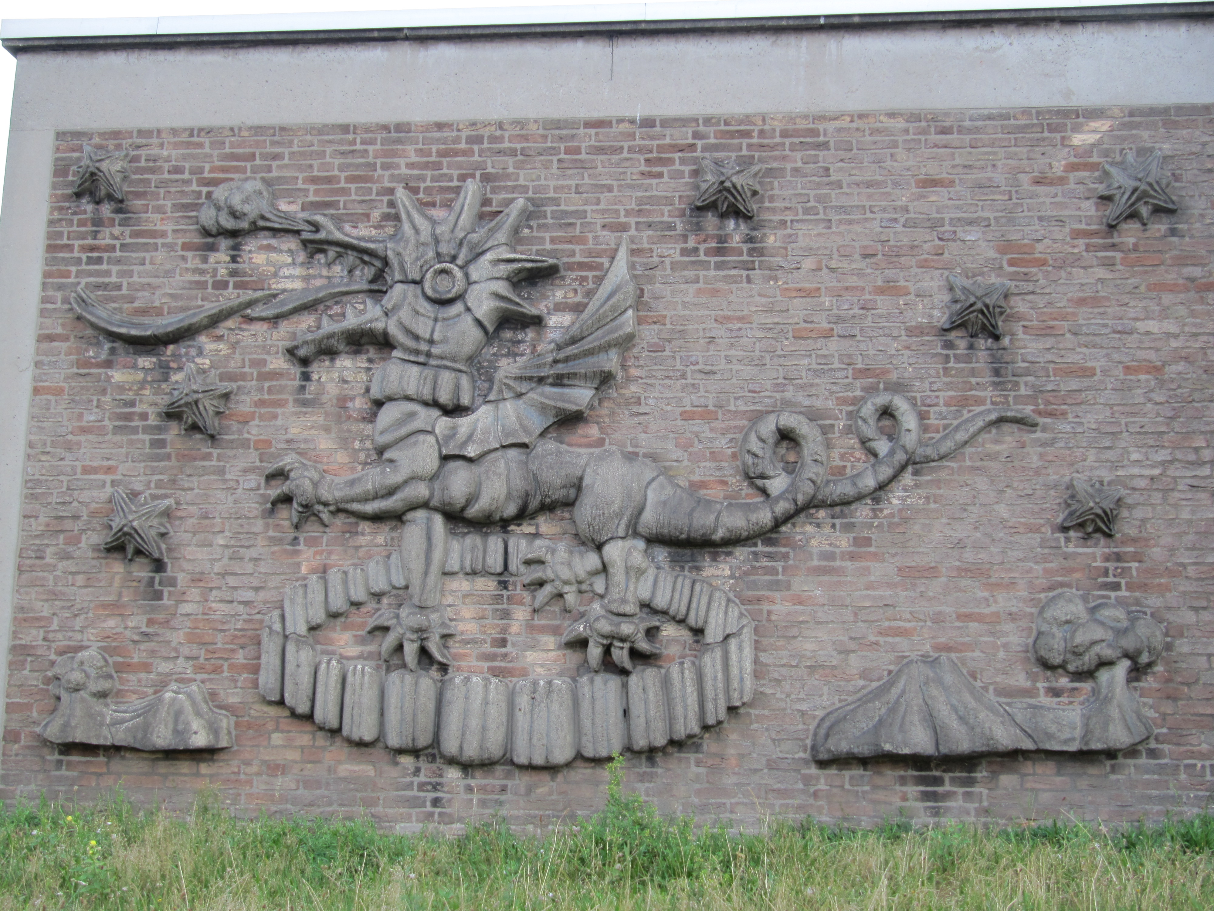 Relief "Vuurspuwende draak" (fire breathing dragon) by Gerard Hordijk on a power station at the Amsterdamseweg in Amersfoort, The Netherlands